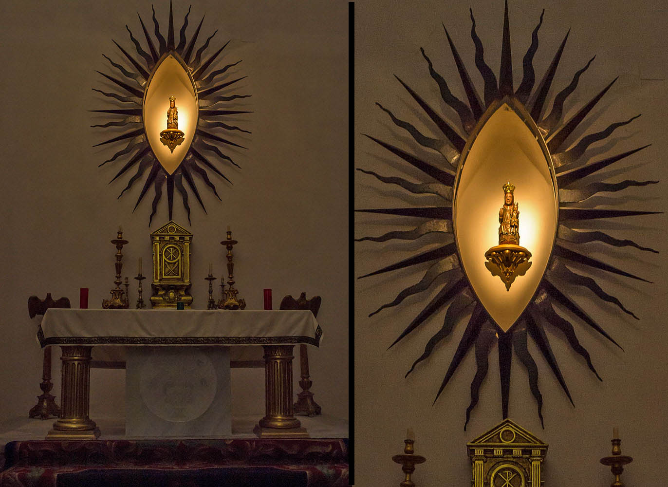 Capilla de Nuestra señora de El Parral.